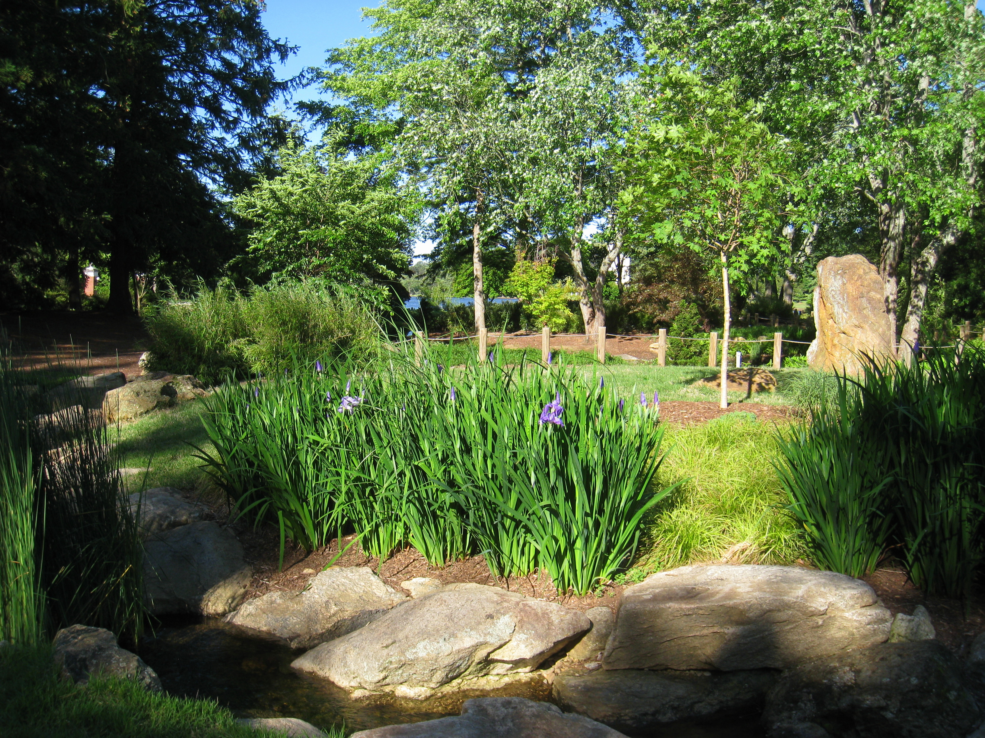 Furman University Japanese Garden, Furman University, Greenville, South Carolina, USA.